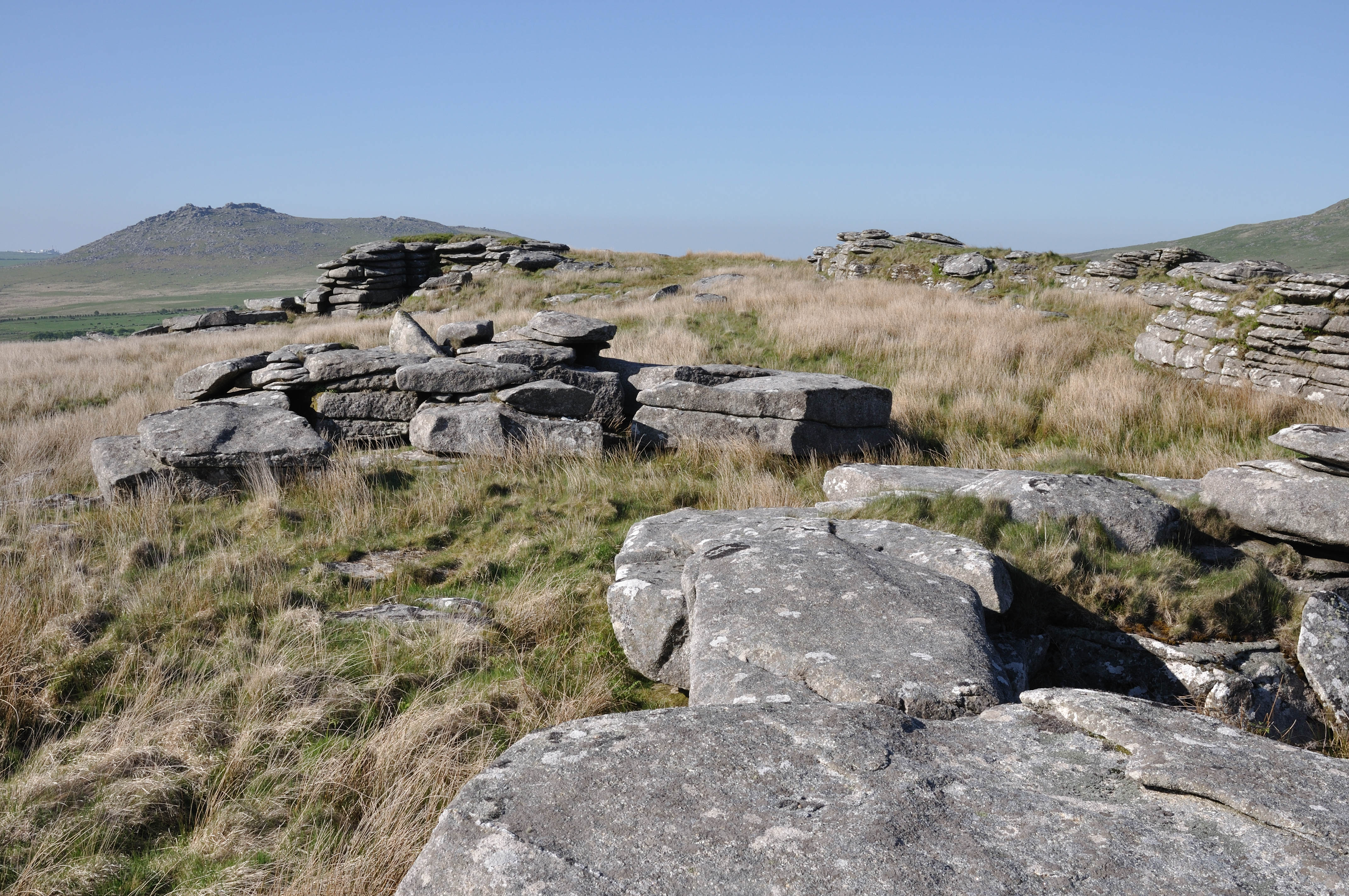 On the Garrow Tor